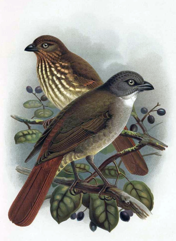 North Island Piopio, Turnagra tanagra and South Island Piopio, Turnagra capensis.